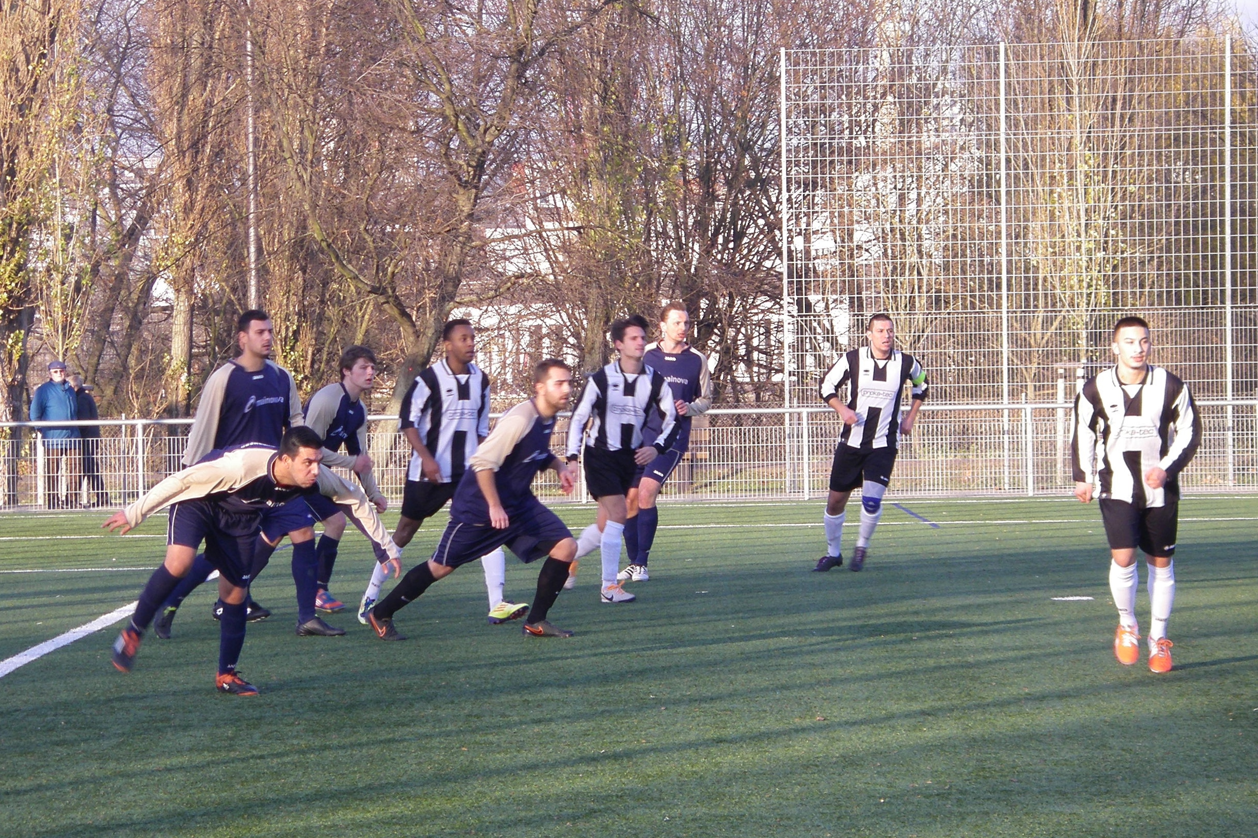 Scene of the soccer derby between SV Sachsenhausen and VfL Germania 1894 on December 6, 2015 (which ended with a 2:0-victory of SVS), the derby of the district Sachsenhausen in Frankfurt am Main.